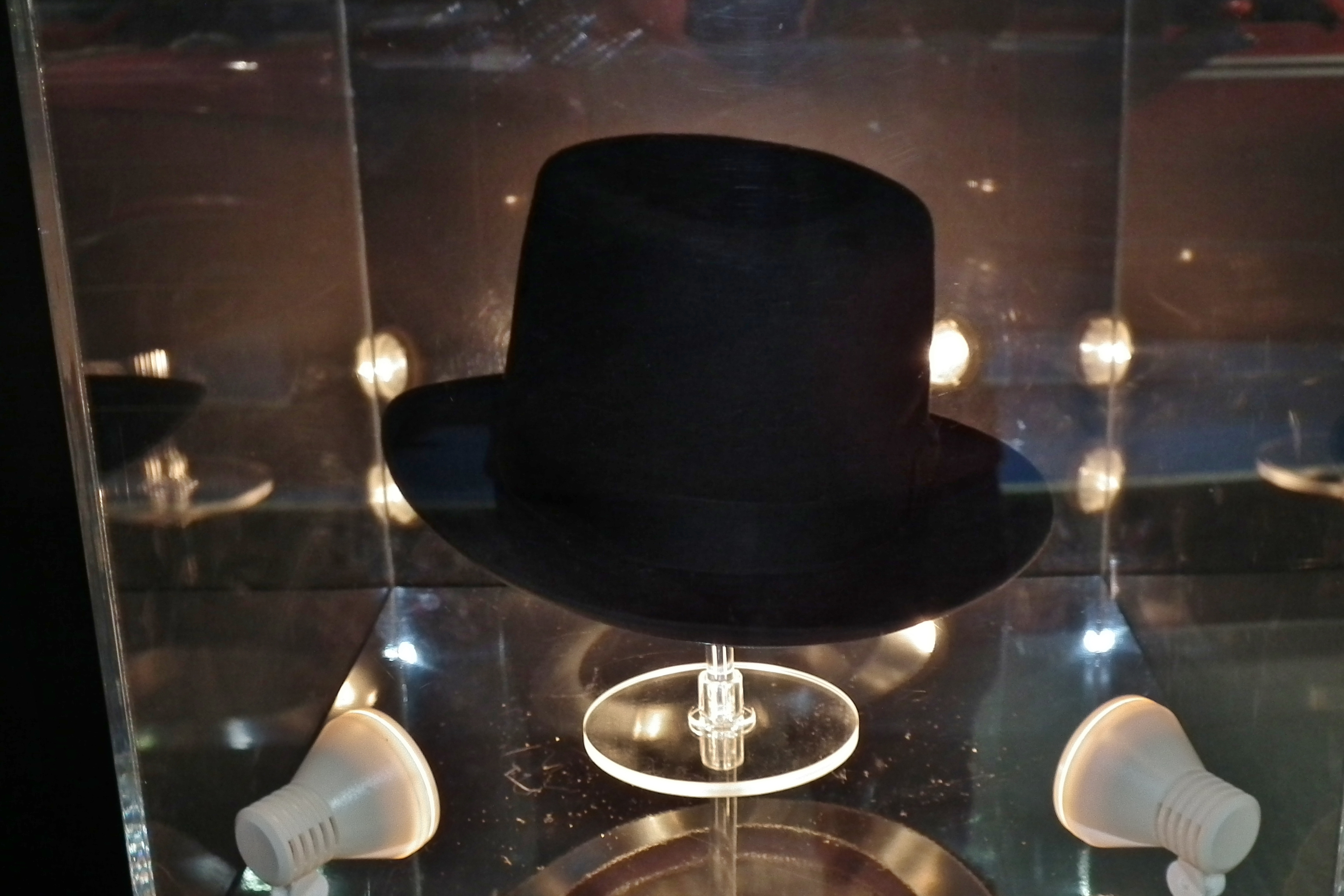 Oddjob's Bowler Hat. Used in the James Bond movie "Goldfinger". Part of the James Bond Experience exhibition. Taken at the National Motor Museum in Beaulieu, Hampshire, England.